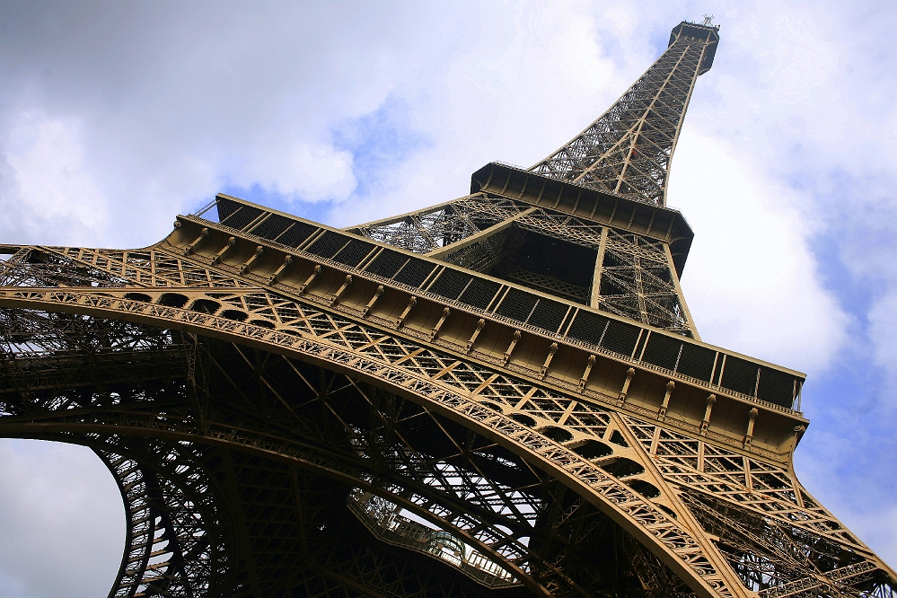 The Eiffel tower in Paris